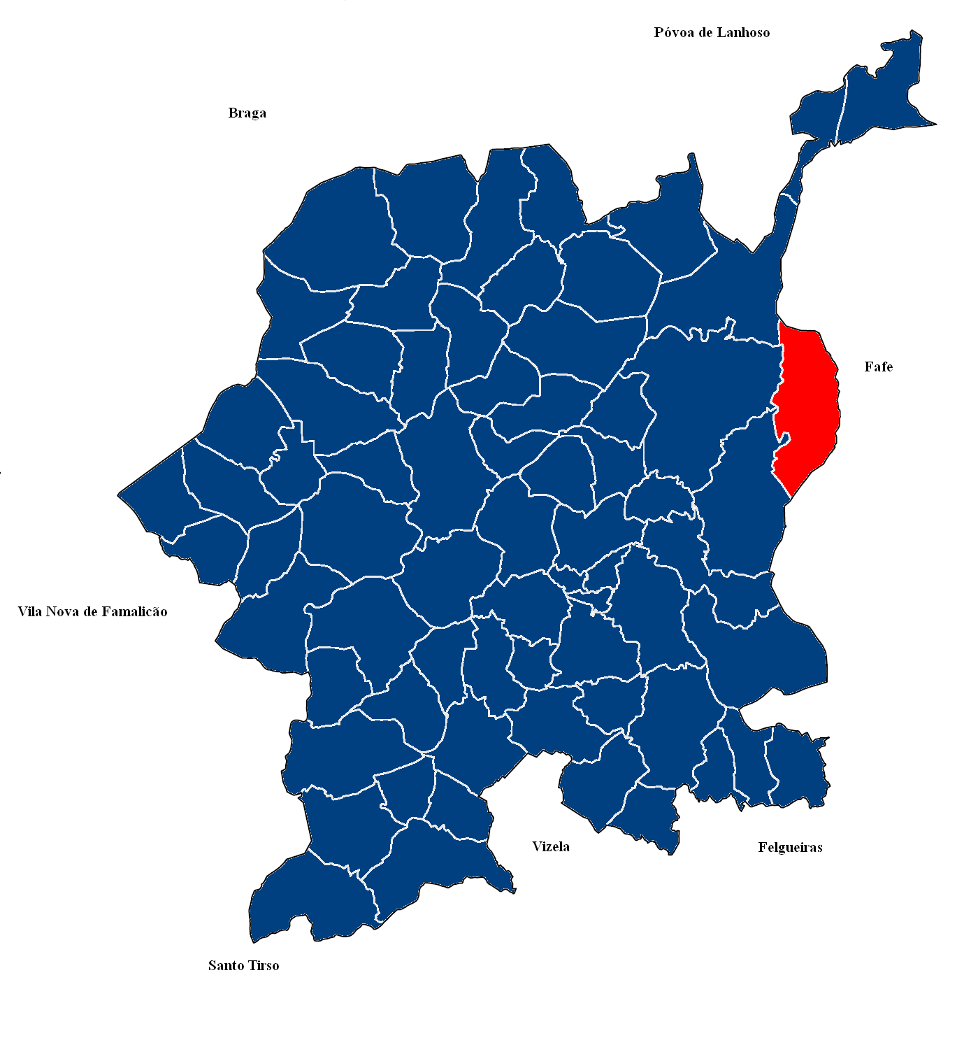 Map of Rendufe parish, Guimarães Municipality, Portugal